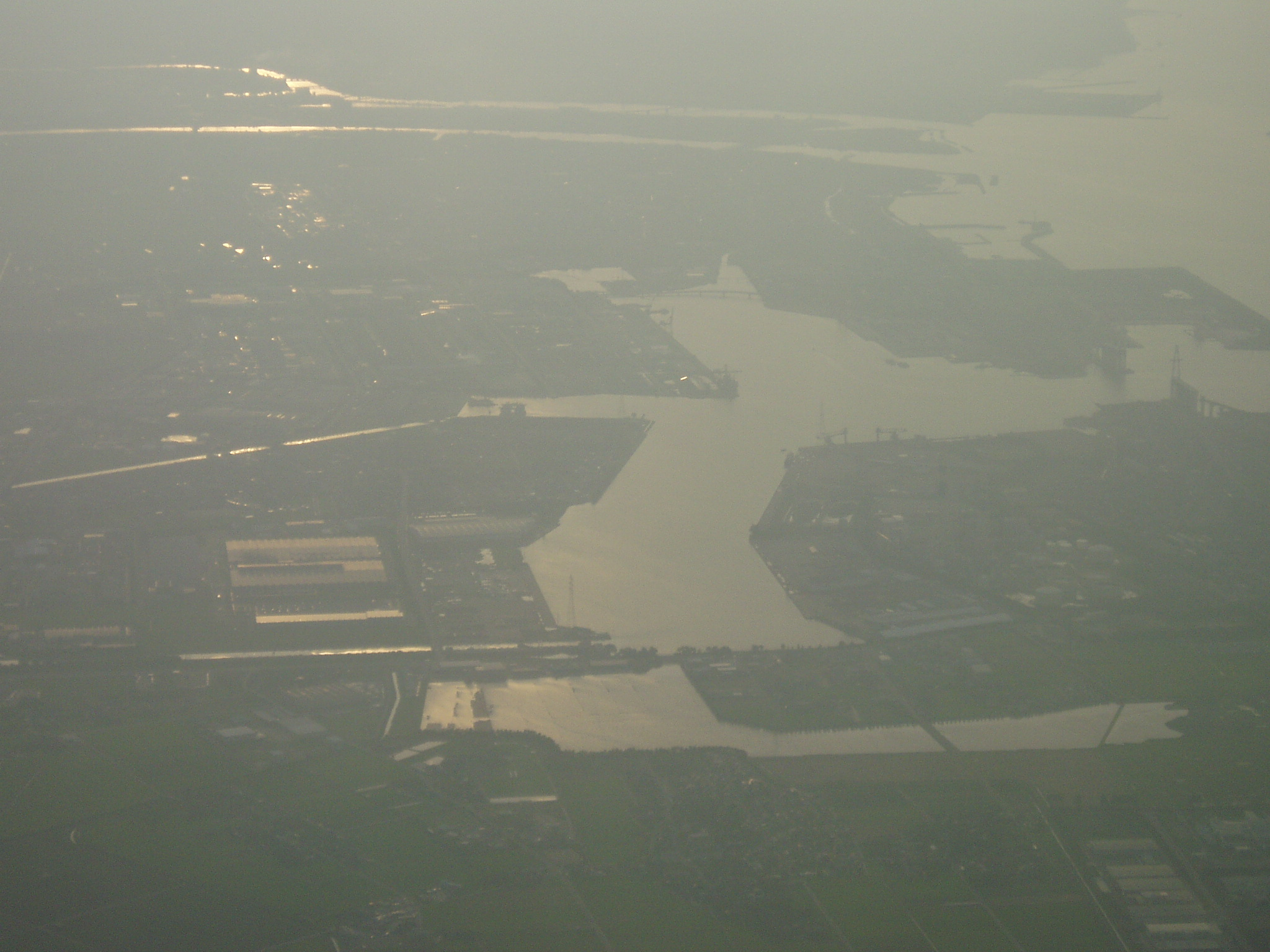 Toyama New Port seen from airplane.